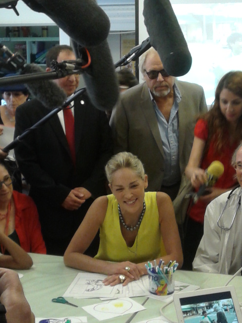 Sharon Stone in her visit in Haddasah Hospital, in Jerusalem, Israel, June, 2013